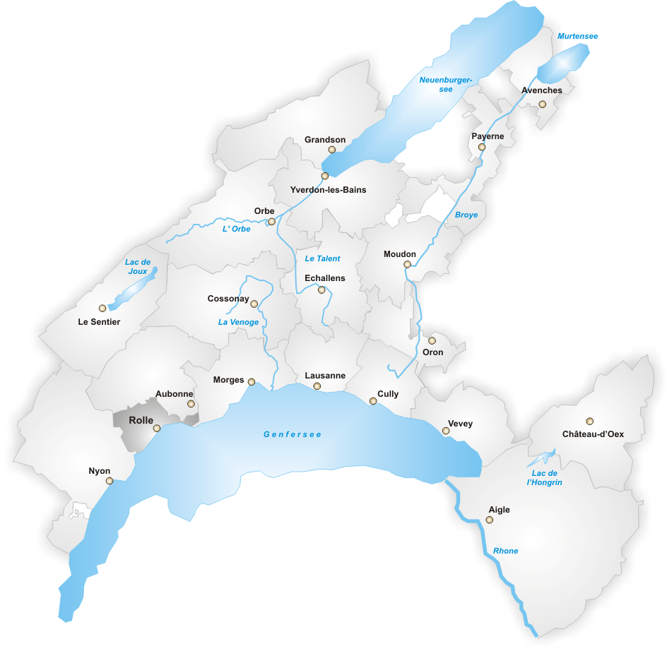 District Rolle until 2007